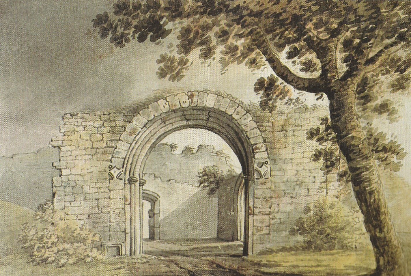 "Gateway at Columb John", 1800 watercolour by Rev. John Swete (d.1821) of the arch, circa 1590, of the former gatehouse to Columb John mansion house in the parish of Broadclyst, Devon. The ruinous walls of the gatehouse shown behind no longer survive, only the arch survives. Devon Record Office: DRO,564M/F17/171